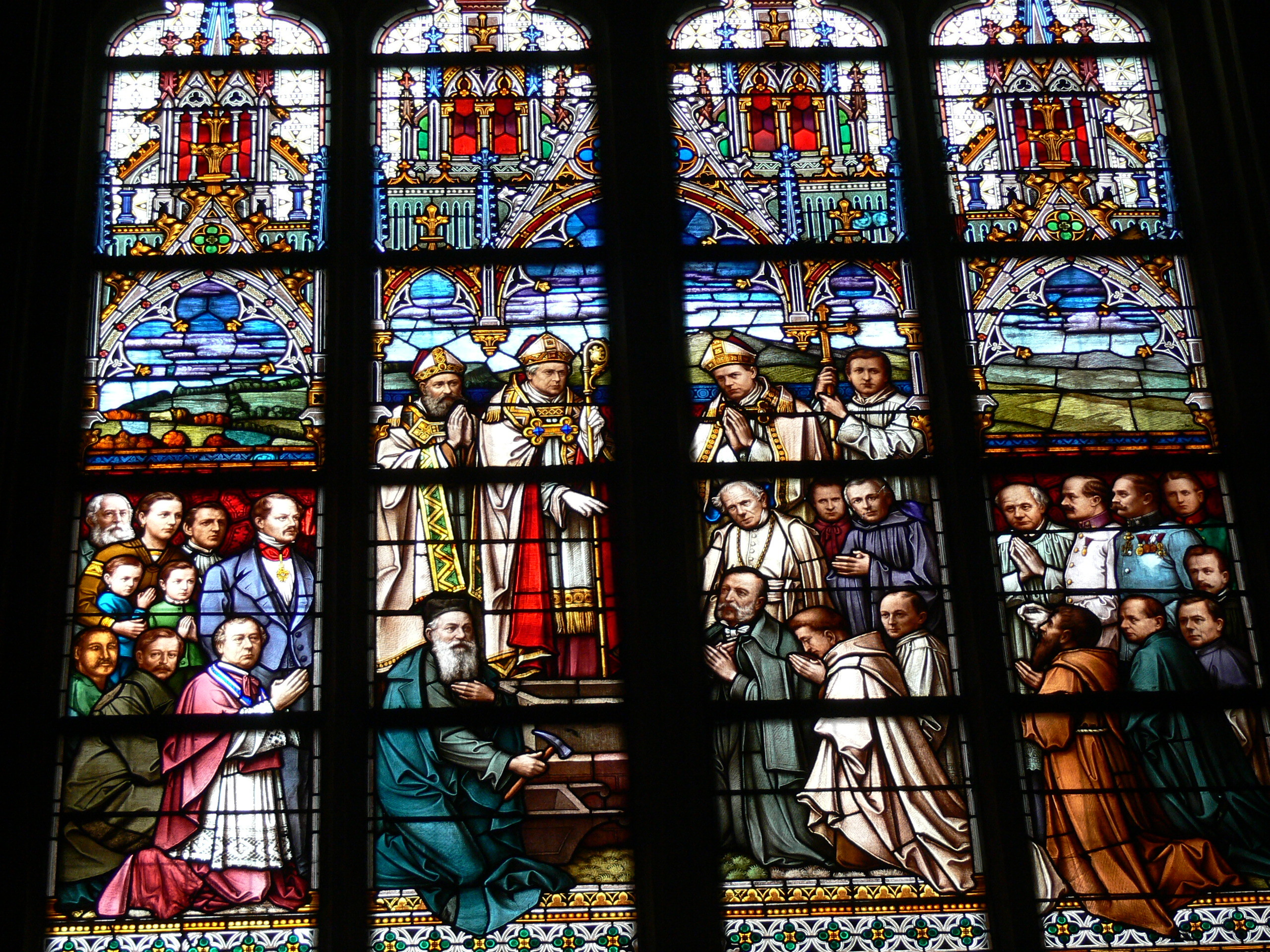 Linz Cathedral ( Upper Austria ). Gothic revival stained glass window showing the foundation of Linz Cathedral by bishop Rudigier in 1862.